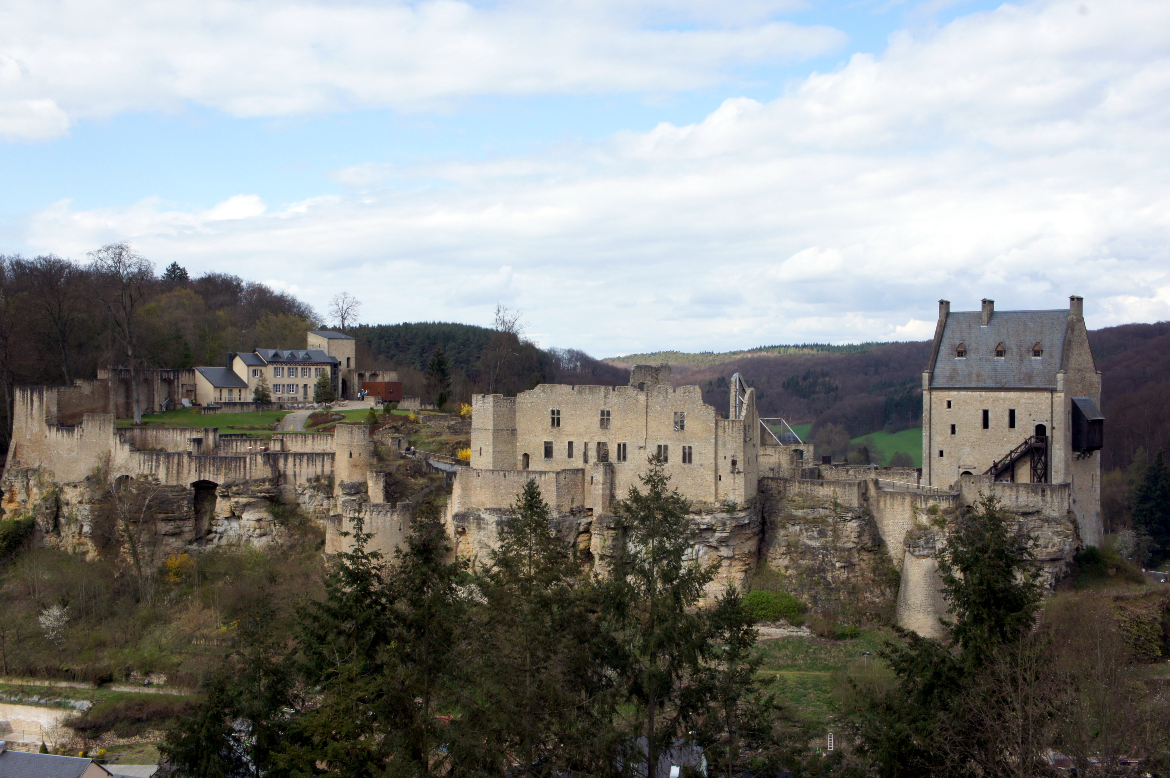 Castle of LarochetteLëtzebuergesch: D'Buerg zu Fiels